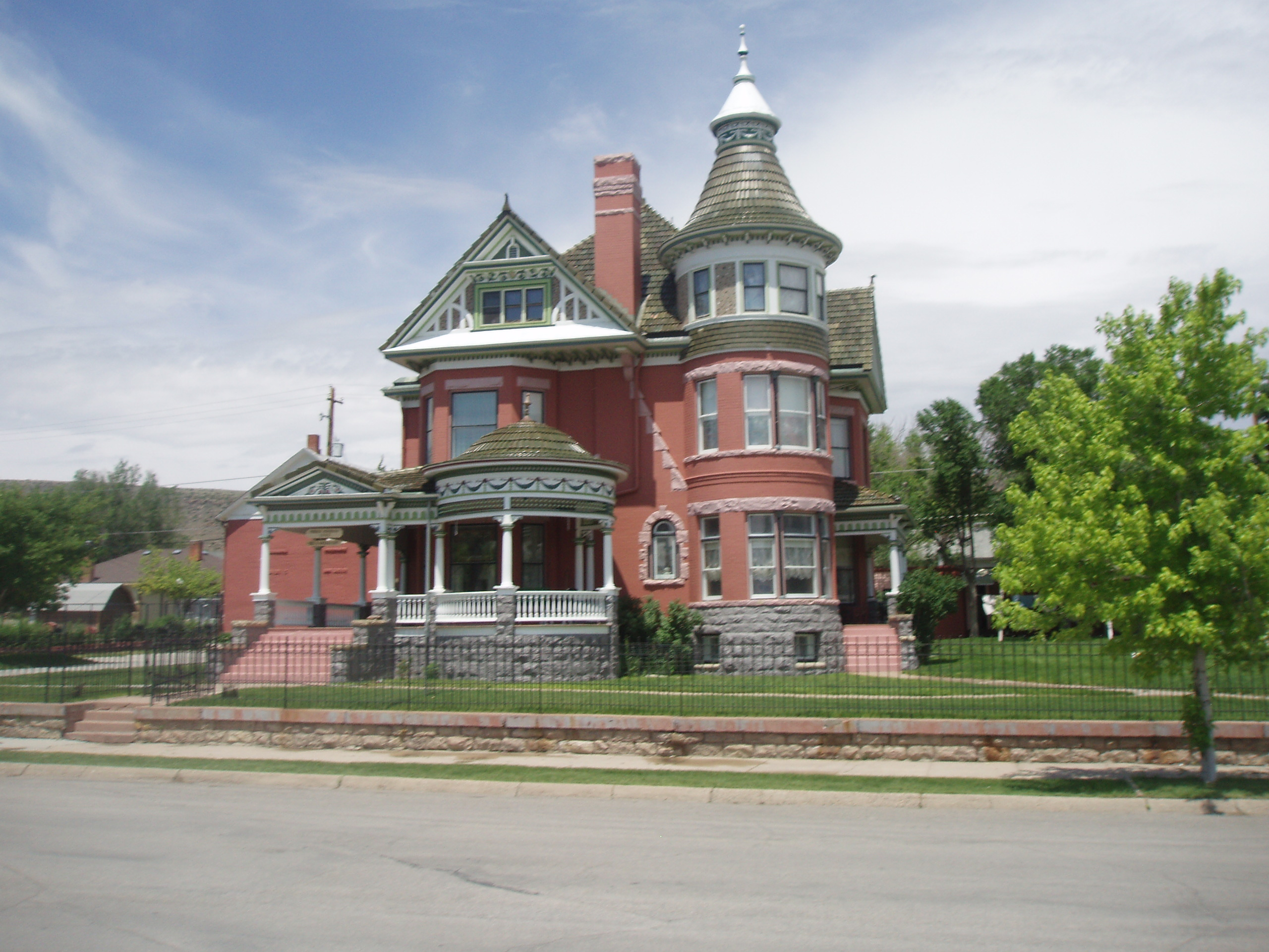 The George Ferris Mansion, a historic home in Rawlins, Wyoming, United States, now operates as a bed and breakfast.